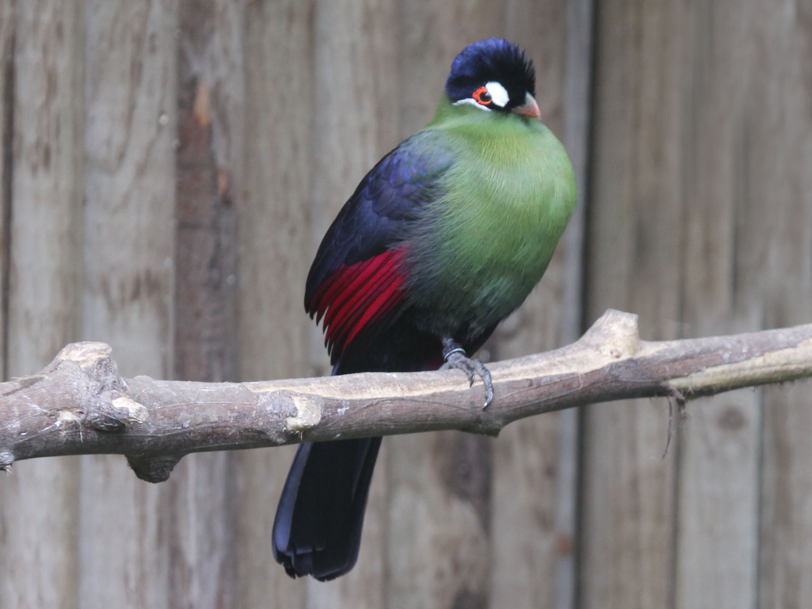 Hartlaub's_Turaco (Tauraco hartlaubi) at World of Birds Wildlife Sanctuary (an aviary) in Cape Town, South Africa